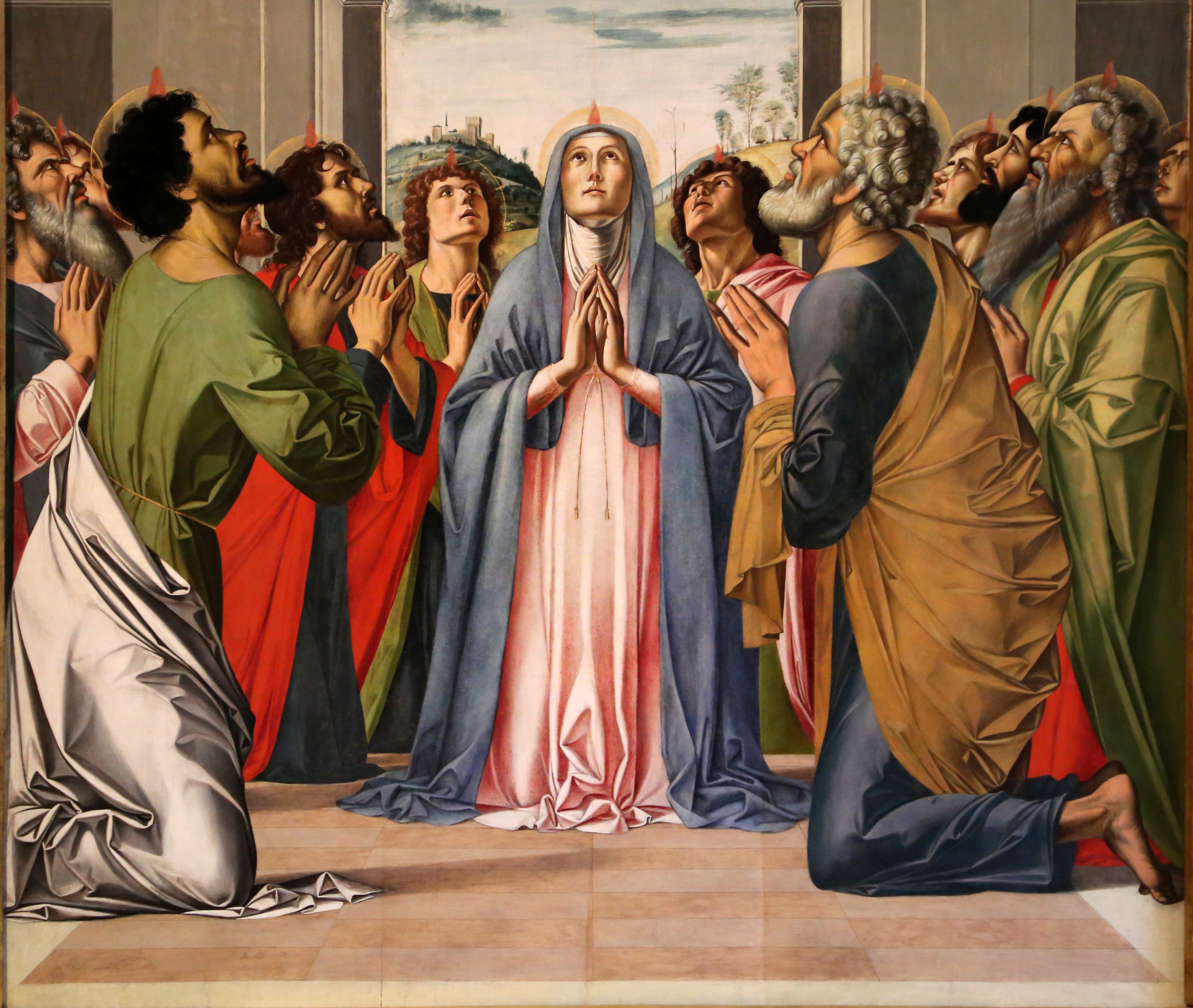 Paintings in the Bode-Museum